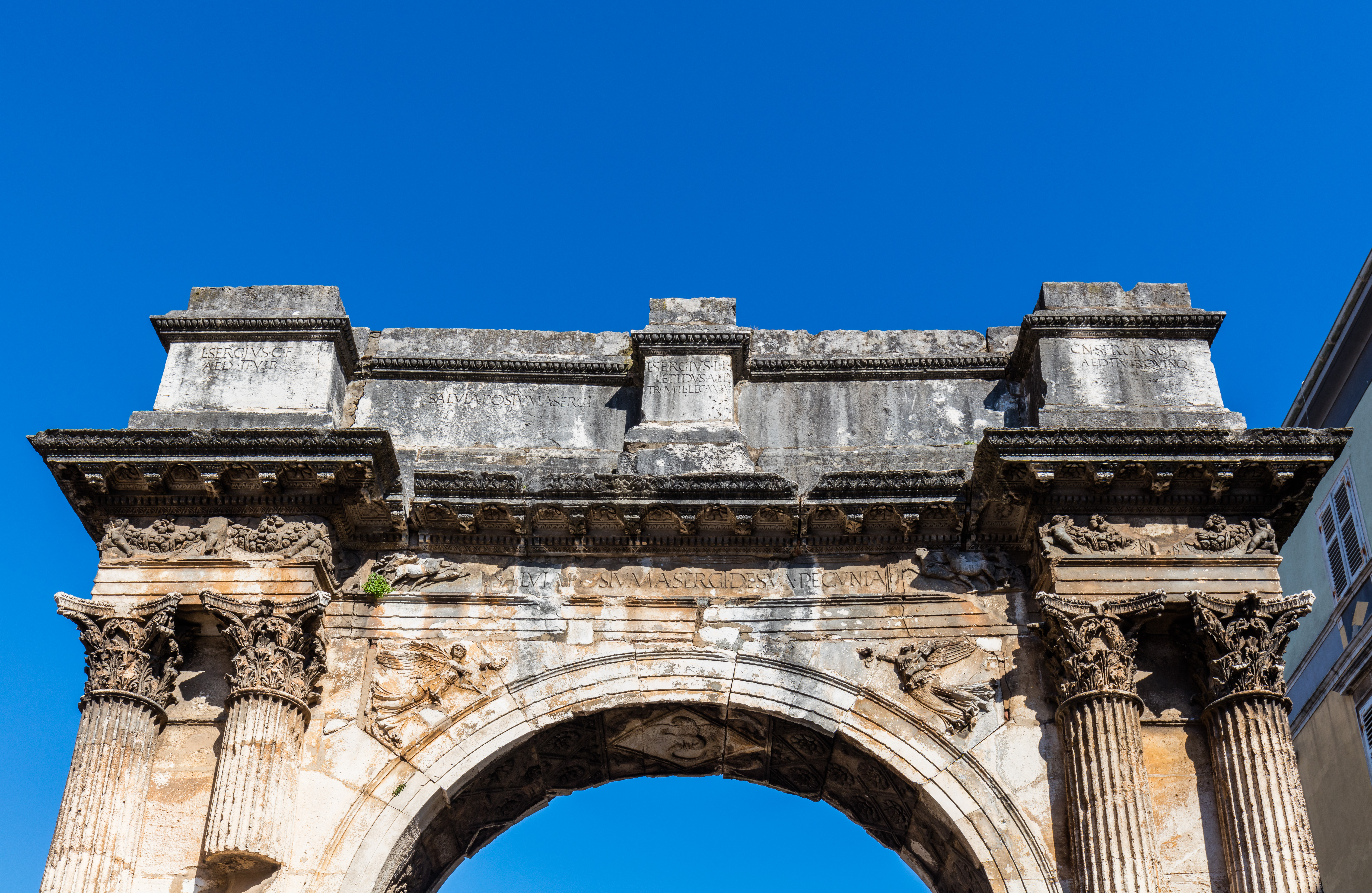 Arch of the Sergii, Pula, Croatia. This is a a photo of a cultural heritage in Croatia with ID: Z-862